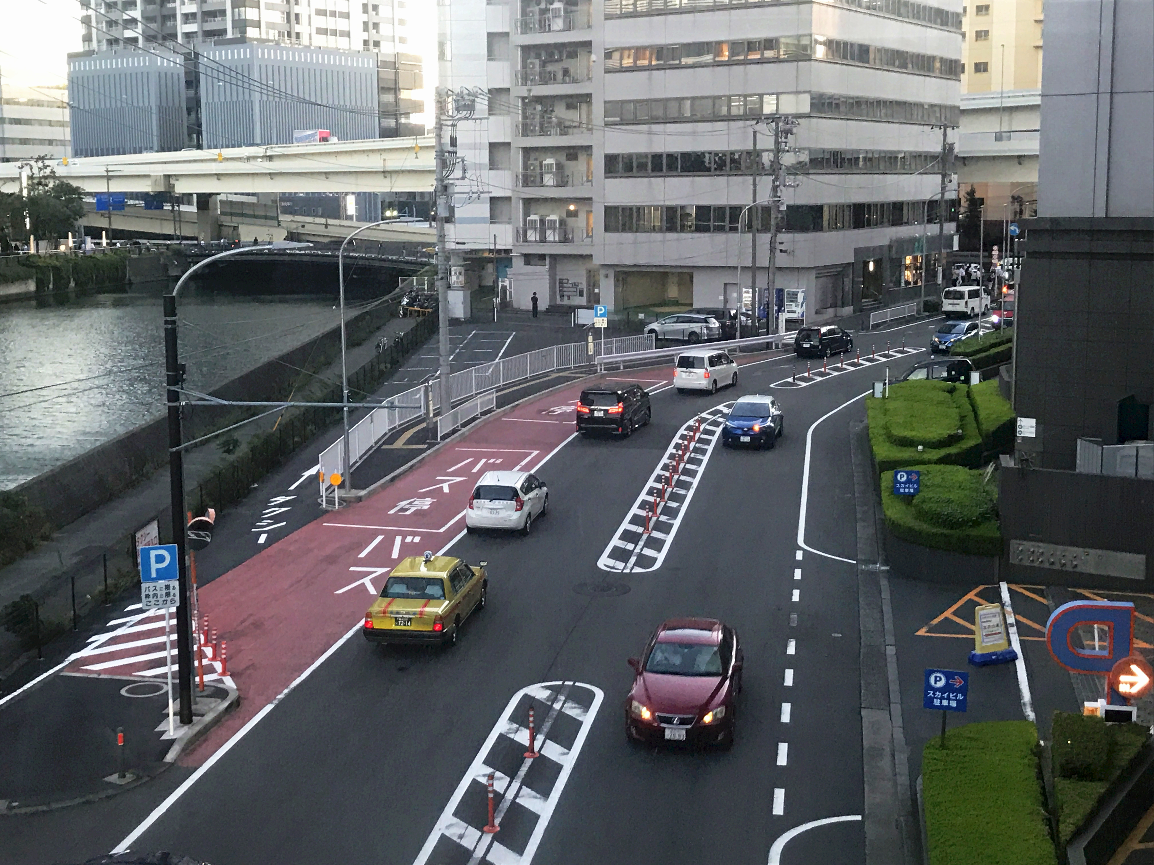 Yokohama station East Sky building (YCAT) bus stop.